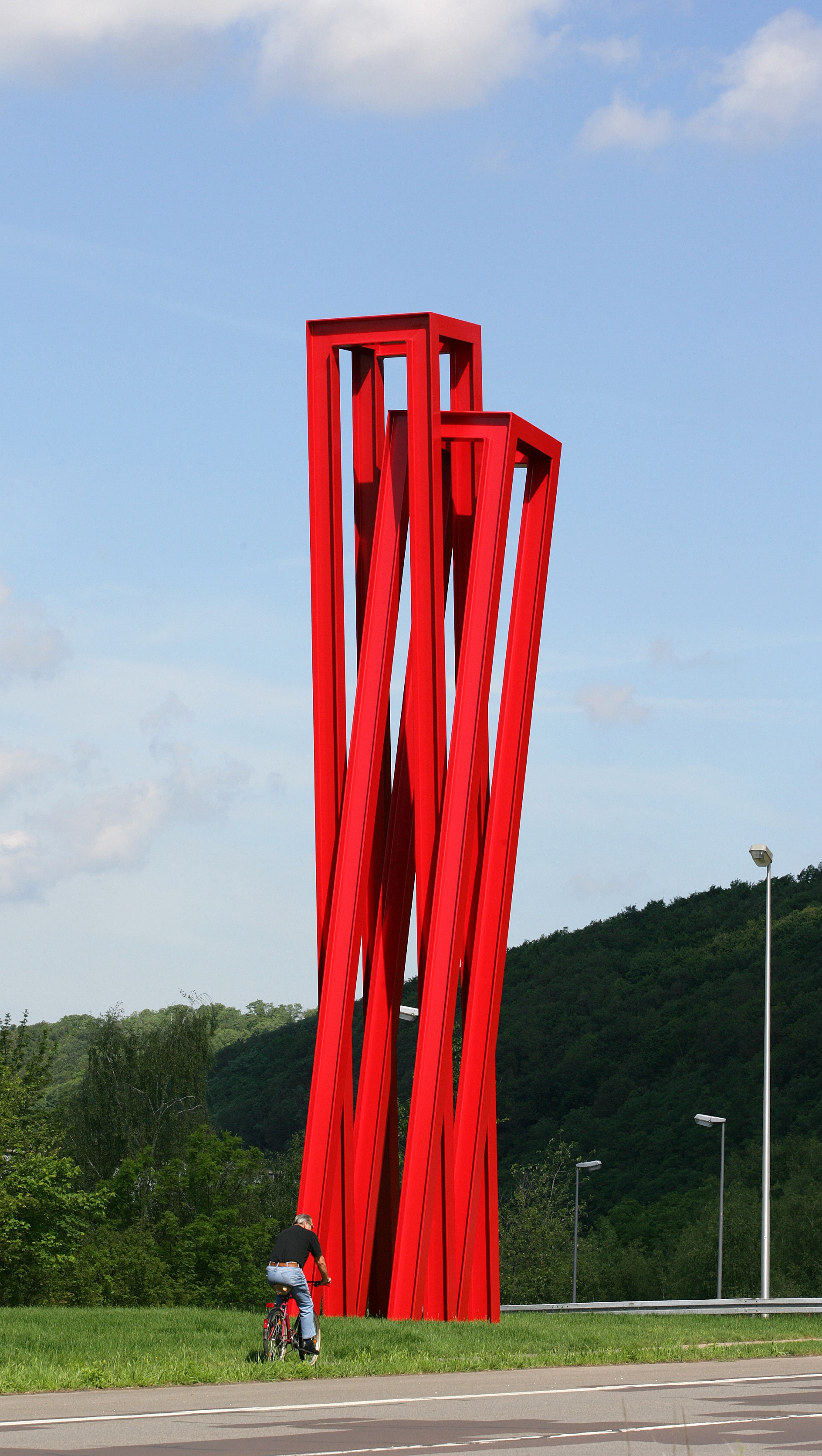 Sculpture Kubushochzeit, steel, by HD Schrader (2007) in Völklingen/Germany